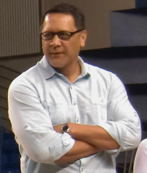 Former San Jose State basketball player Wally Rank is honored with the 1979-80 basketball team that won the PCAA title, during the Jan. 30, 2016 San Jose State basketball game.